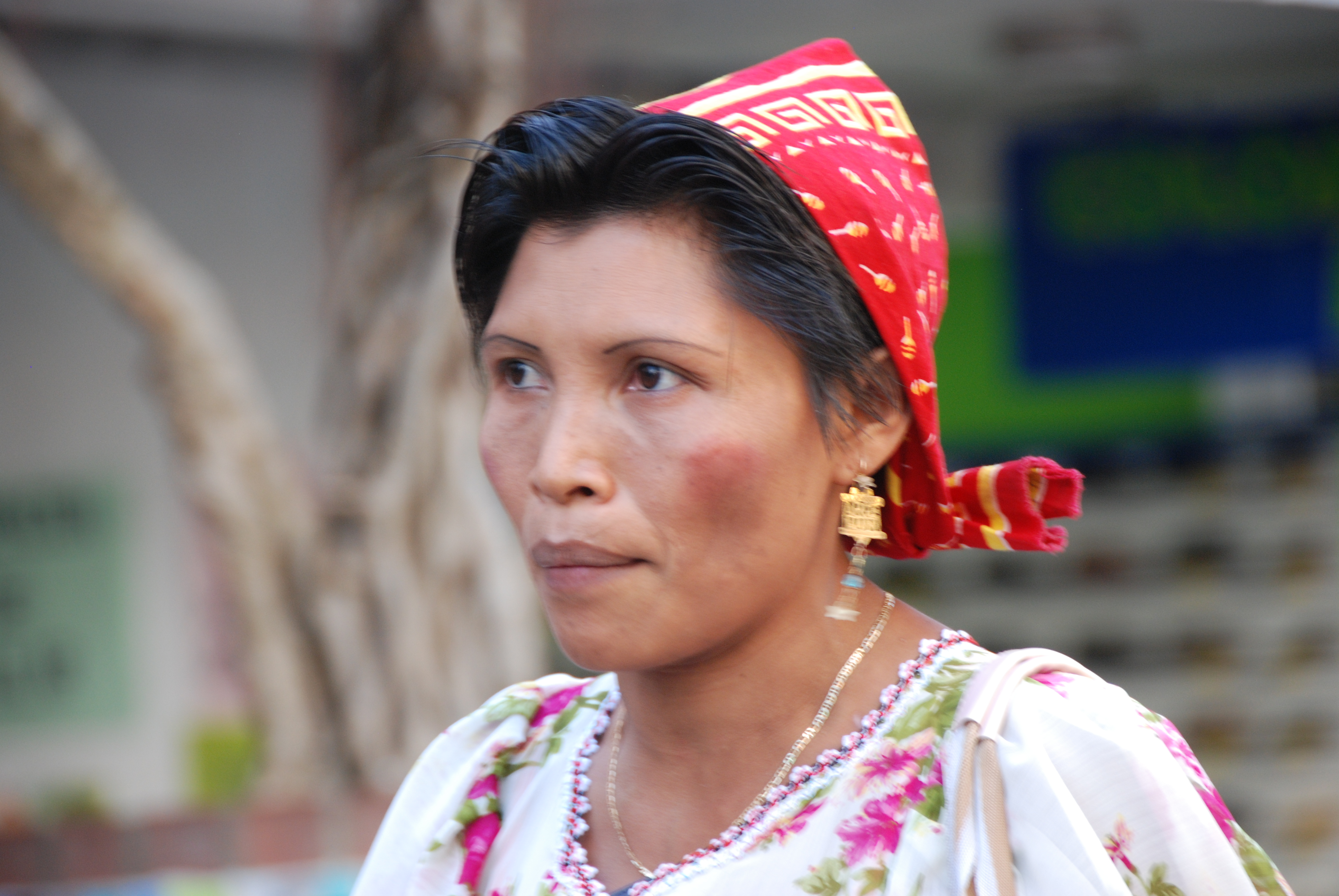 Woman in Panama City